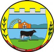 divisa nova